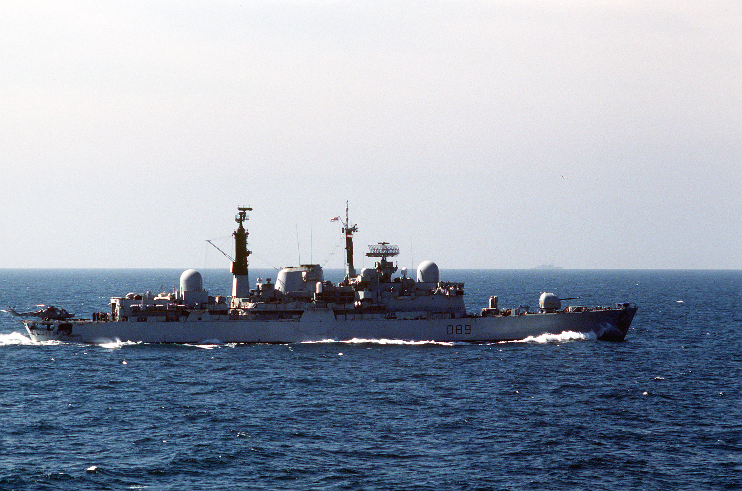 A starboard beam view of the British destroyer HMS Exeter (D89) underway in the Gulf of Oman on 1 October 1987, on patrol while stationed in the Persian Gulf as part of a multinational force safeguard shipping during the war between Iraq and Iran.